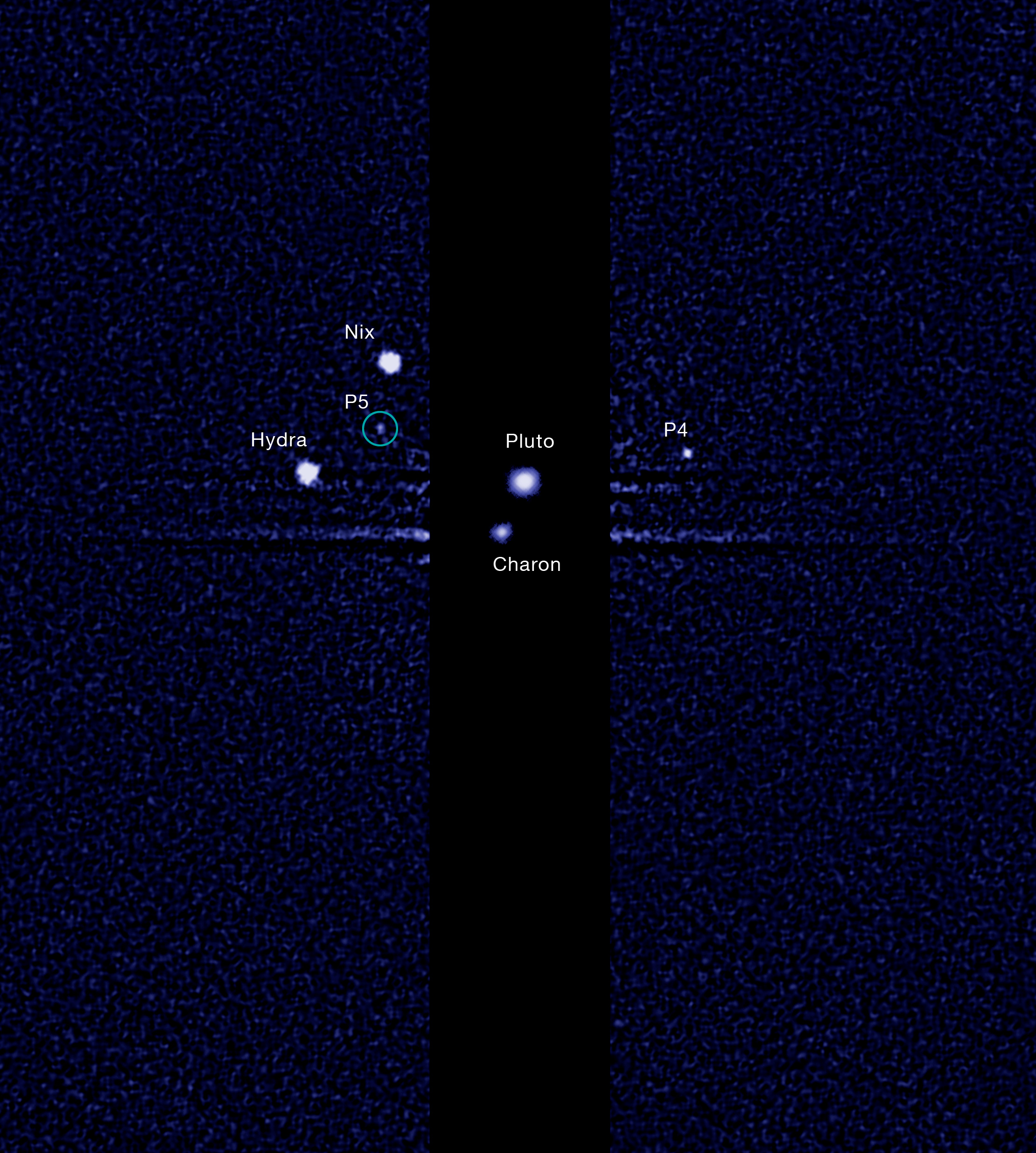 This image, taken by the NASA/ESA Hubble Space Telescope, shows five moons orbiting the distant, icy dwarf planet Pluto. The green circle marks the newly discovered moon, designated S/2012 (134340) 1, or P5, as photographed by Hubble’s Wide Field Camera 3 on 7 July 2012. Other observations that collectively show the moon’s orbital motion were taken on 26, 27 and 29 June and on July 9. The moon is estimated to be 10 to 25 kilometres across. It is in a 95 000 kilometre diameter circular orbit around Pluto that is assumed to be aligned in the same plane as the other satellites in the system. The darker stripe in the centre of the image is because the picture is constructed from a long exposure designed to capture the comparatively faint satellites of Nix, Hydra, P4 and S/2012 (134340) 1, and a shorter exposure to capture Pluto and Charon, which are much brighter.